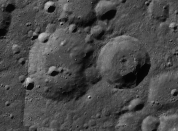 Lindblad crater (left) and Lindblad F crater (right), on the moon. Lunar Reconnaissance Orbiter North Polar mosaic.